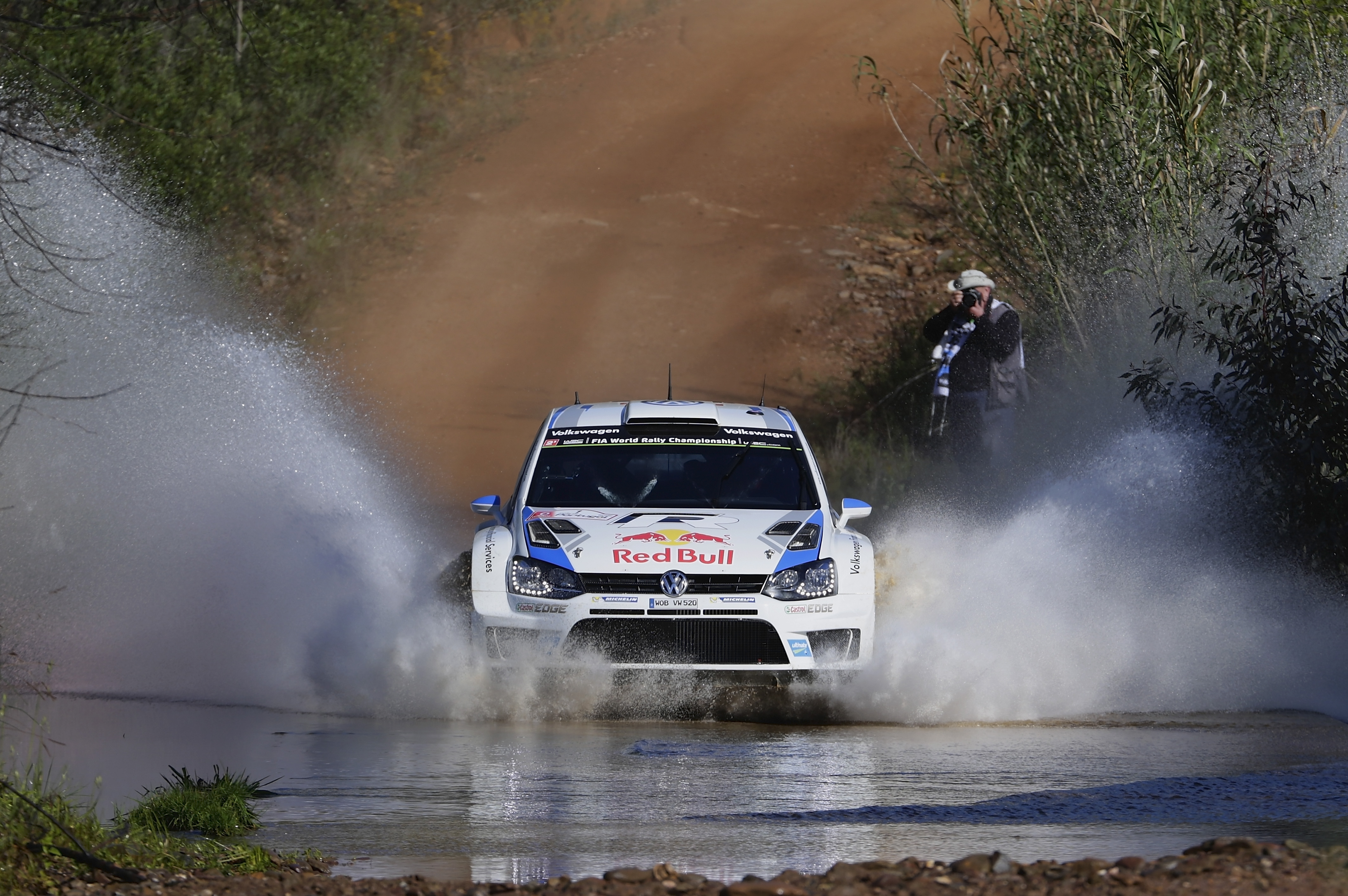 Sébastien Ogier and co-driver Julien Ingrassia in their VW Polo R WRC at the 2014 Rally Portugal.